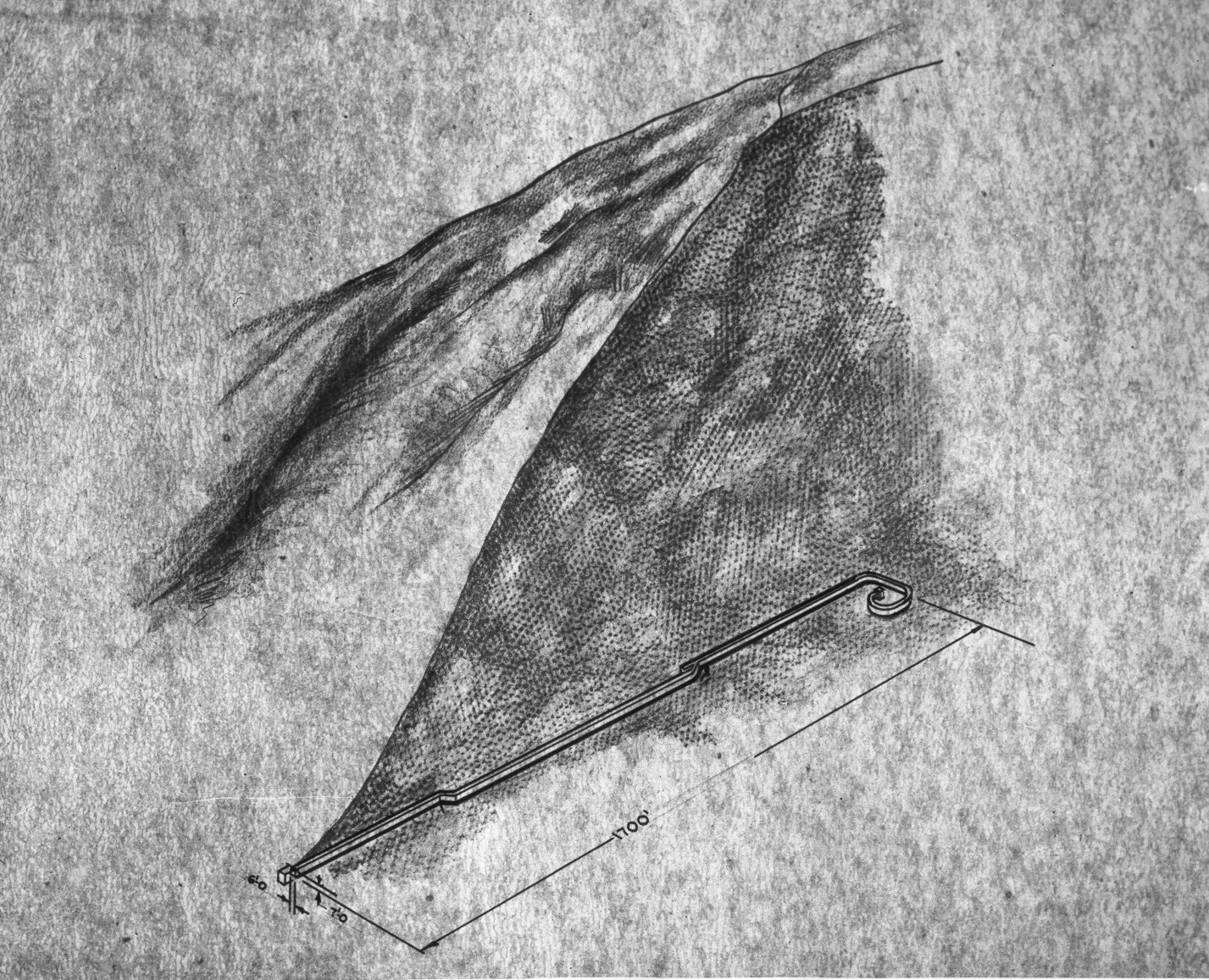 Schematic drawing of the tunnel in which the Plumbbob Rainier deep underground nuclear test is scheduled for detonation at 10:00 a.m. Thursday, September 19, 1957. Length of the tunnel is about 2,000 feet. The hook at its end was designed so that explosive force will seal off the non-curved portion of the tunnel nearest the detonation before gases and fission fragments can be vented around the curve of the tunnel's hook. The objective is to contain the detonation and avoid producing fallout.